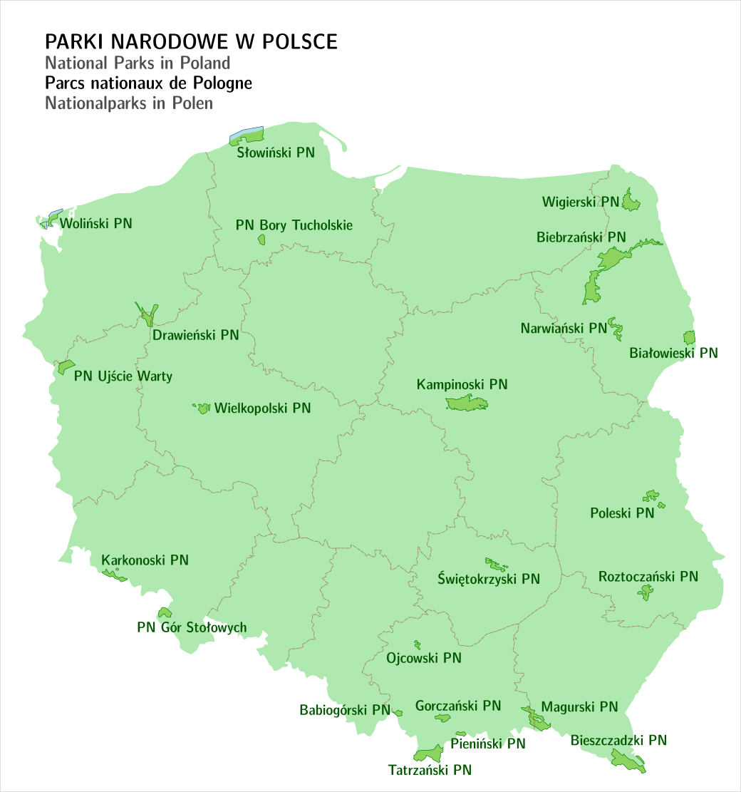 National Parks in Poland (2017)